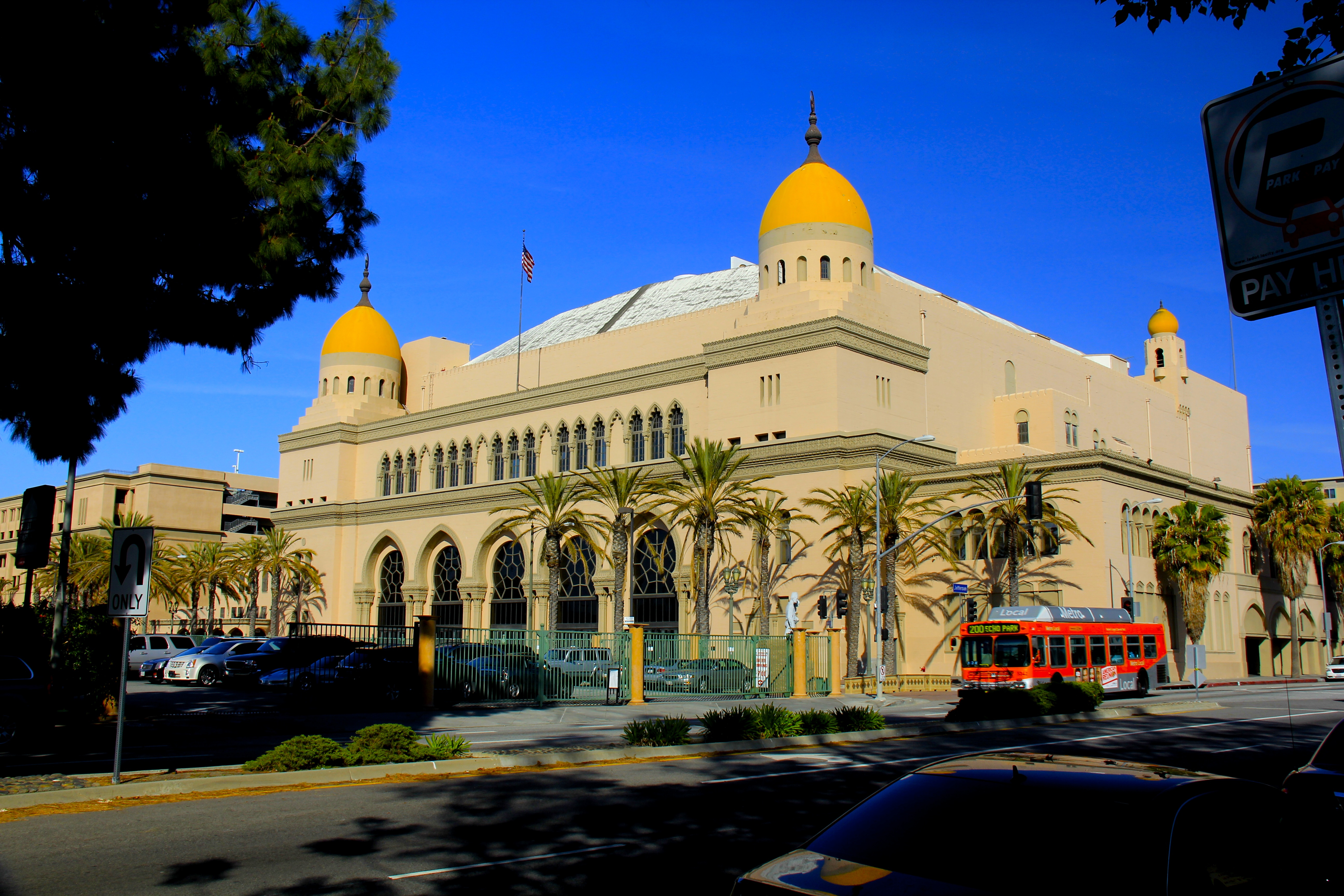 Al Malaikah Temple - Shrine Auditorium, 655 W. Jefferson Blvd. University Park